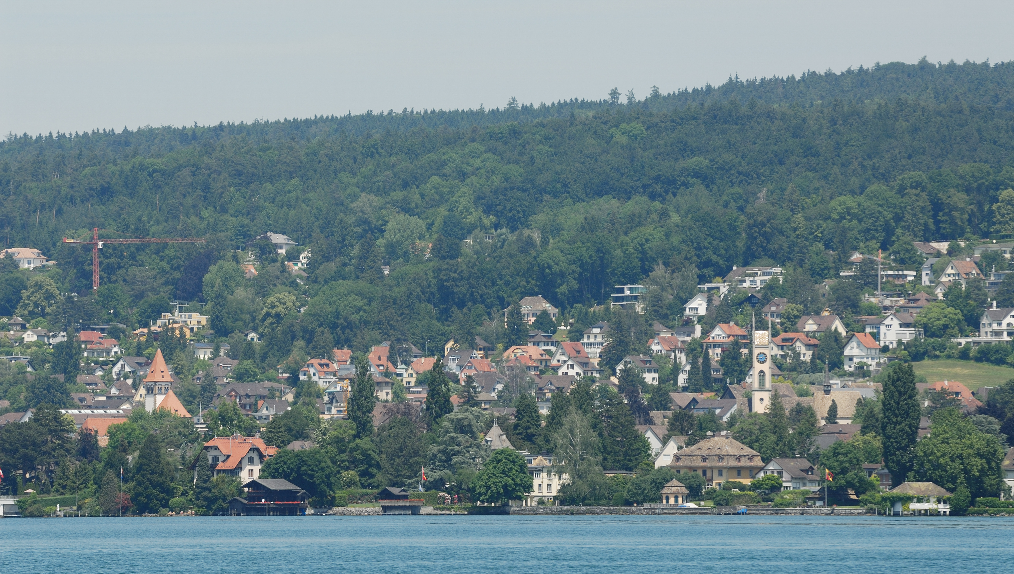 View of Küsnacht from Lake Zürich.